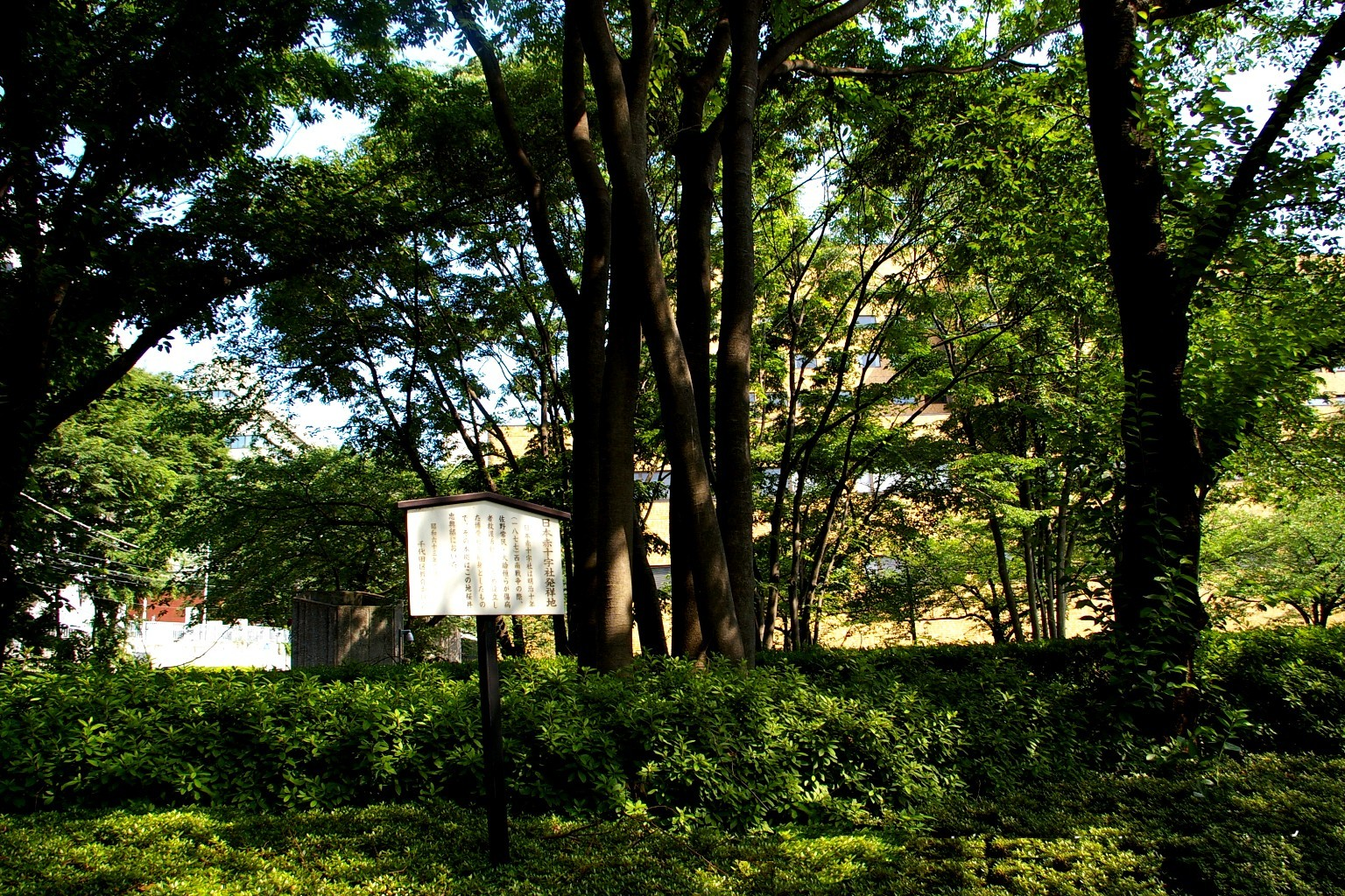 上野彦馬 (talk)took this pic in Japan April 2009.